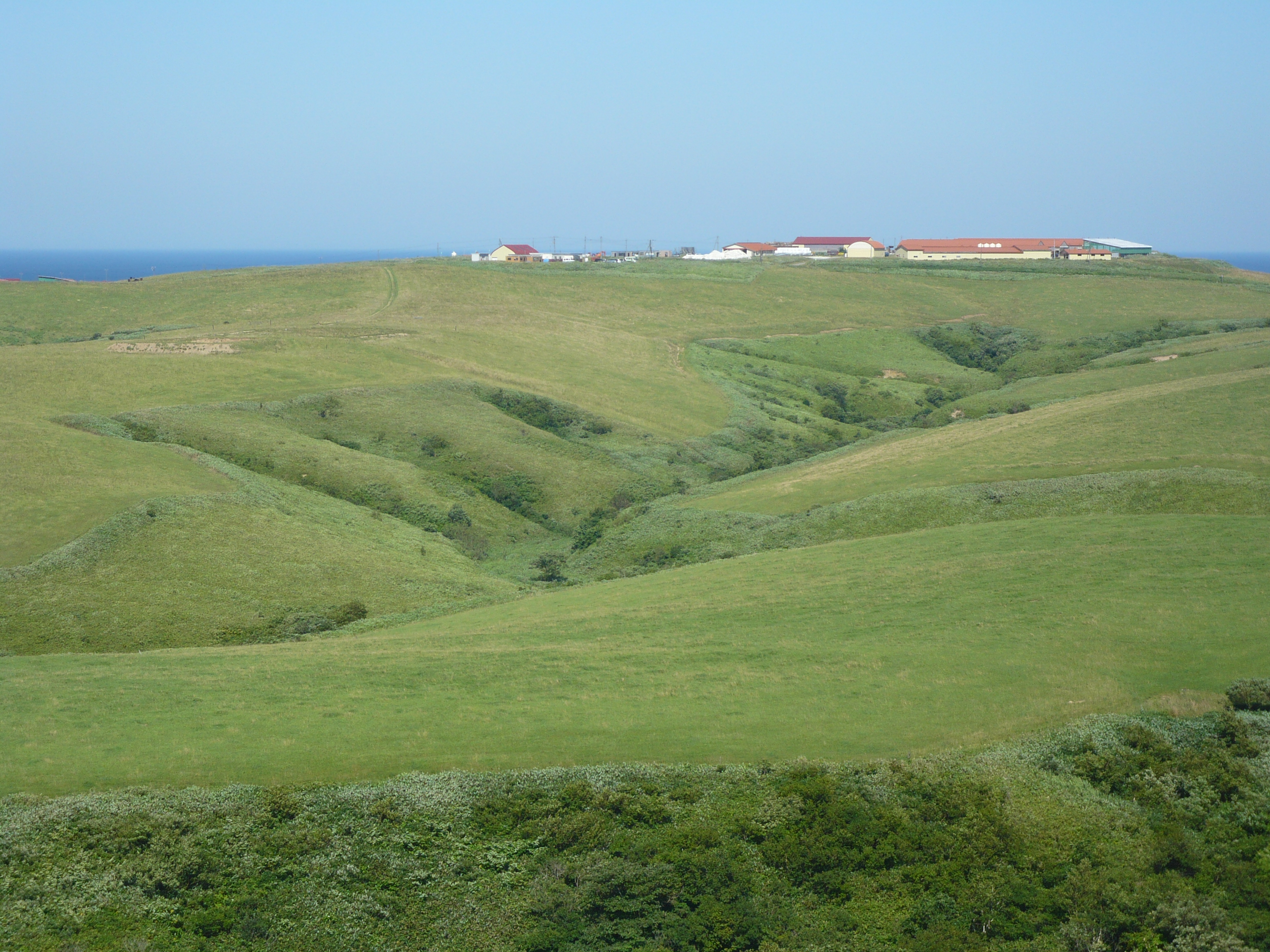 souya hill